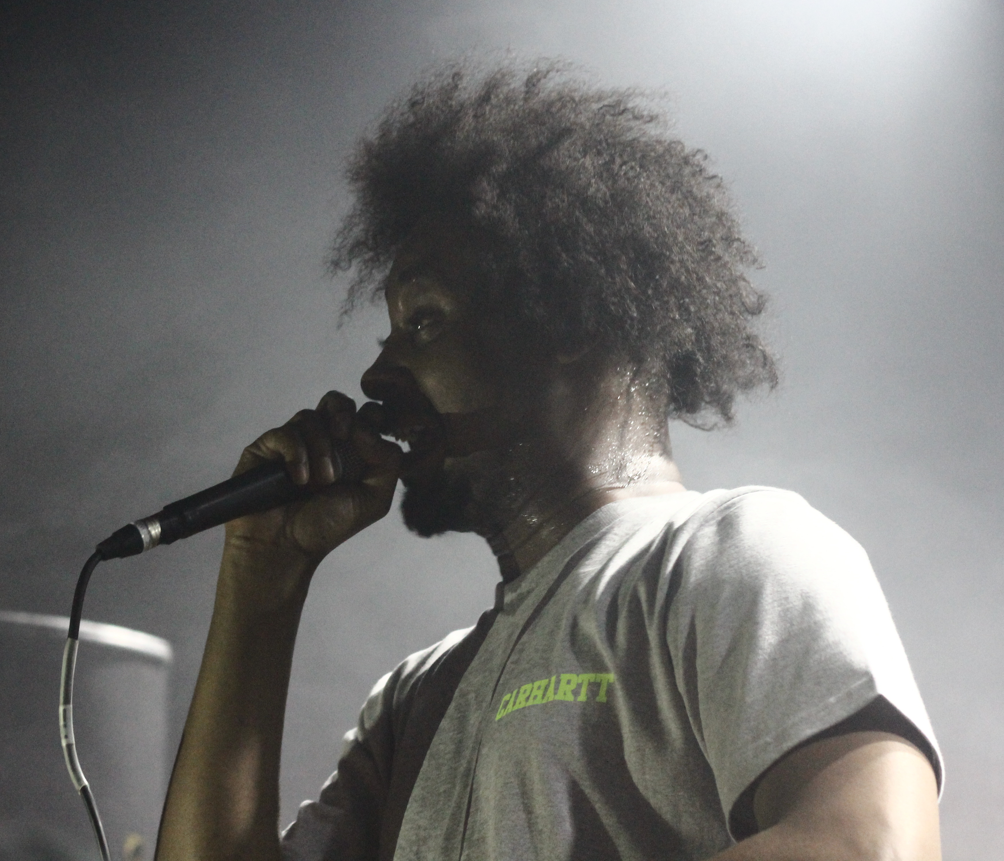 Danny Brown performing in 2014